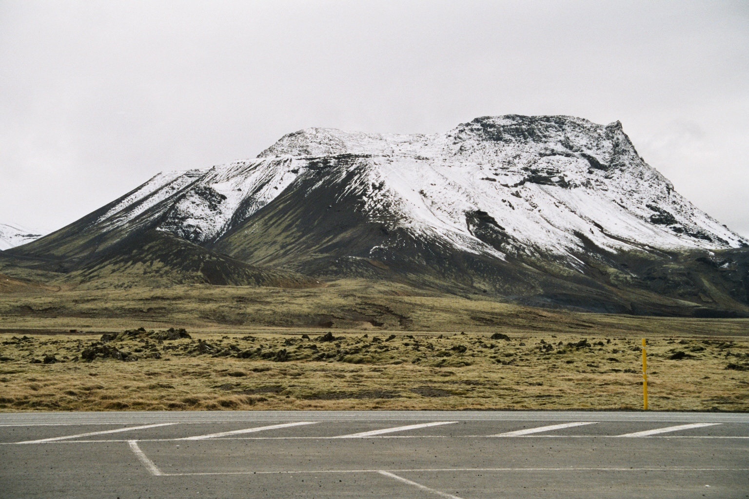 Vífilsfells is part of Bláfjöll mountain range in the southwest of Iceland.